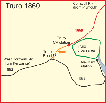 Diagram of Truro, England rail network in 1860